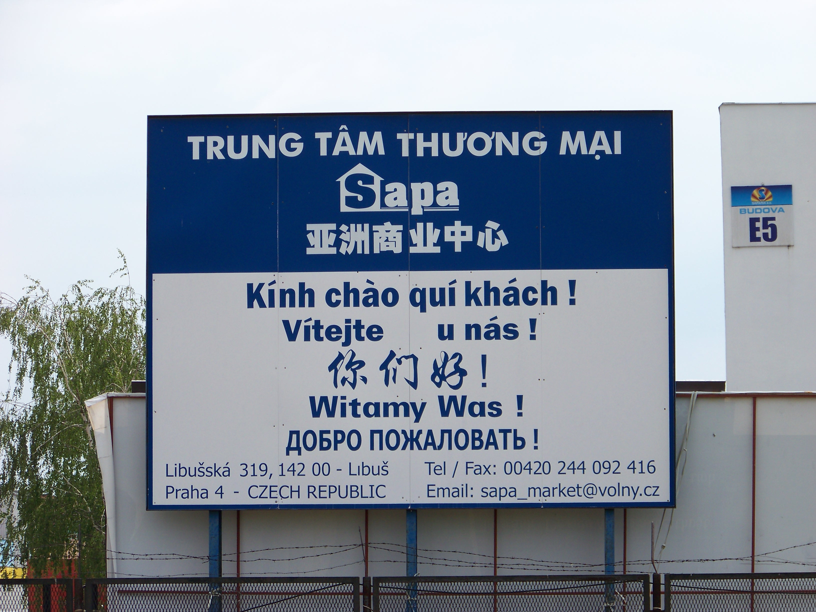 Prague-Písnice, the Czech Republic. Libušská 319/126, TTTM Sapa. A welcome sign.